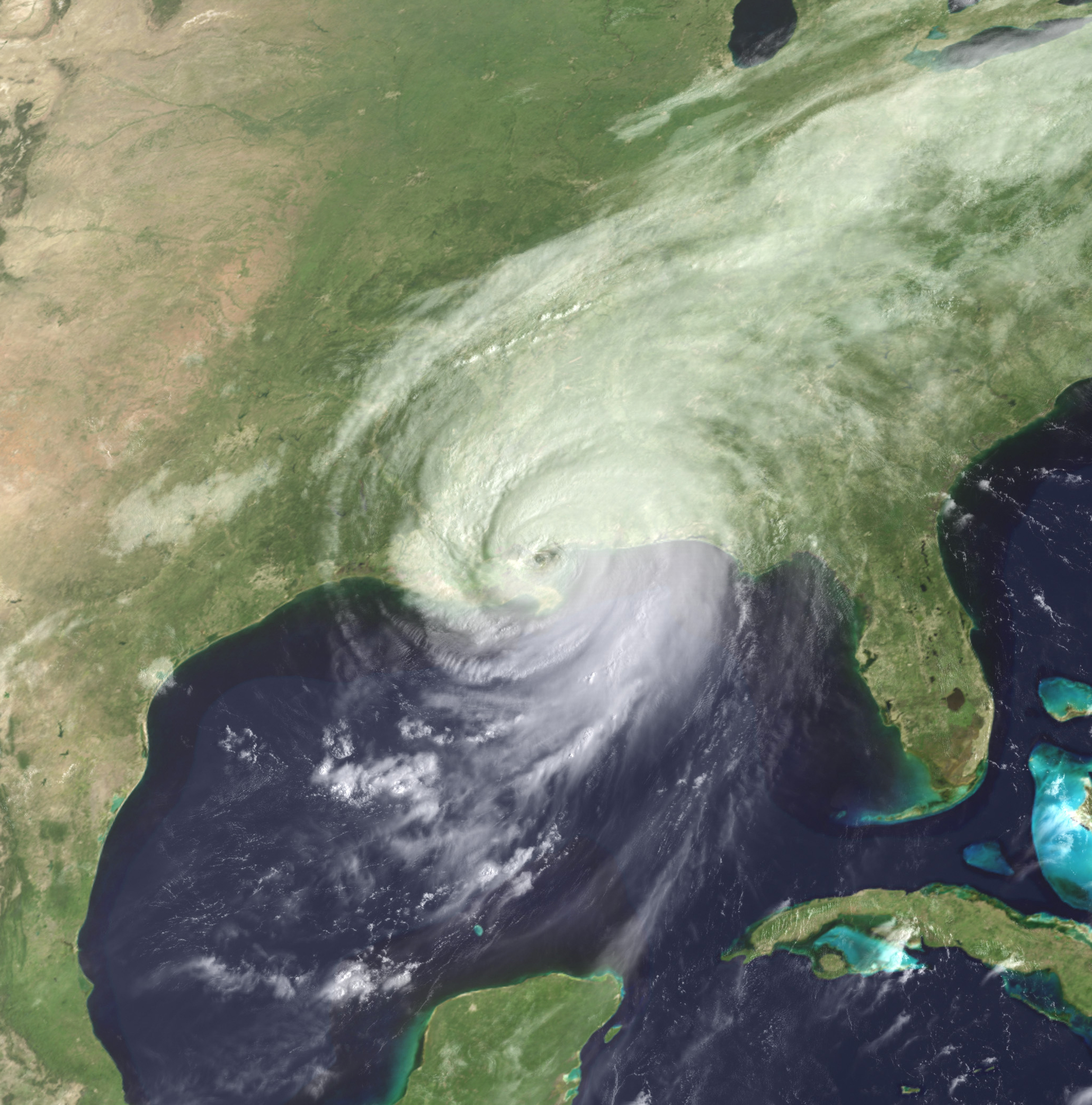 Cropped image of Hurricane Katrina making landfall near New Orleans, Louisiana.